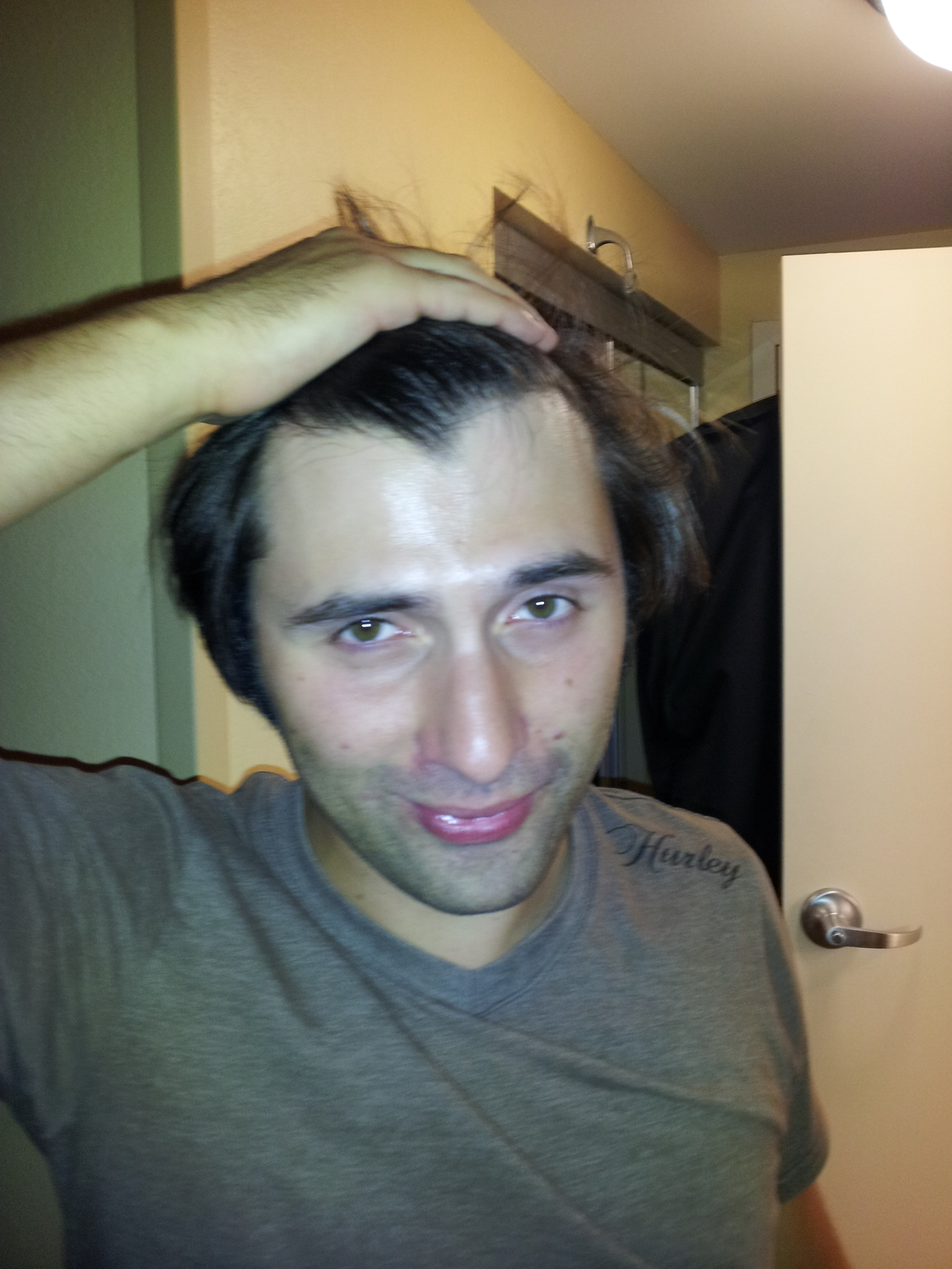 Example of ultra large male widow peak.